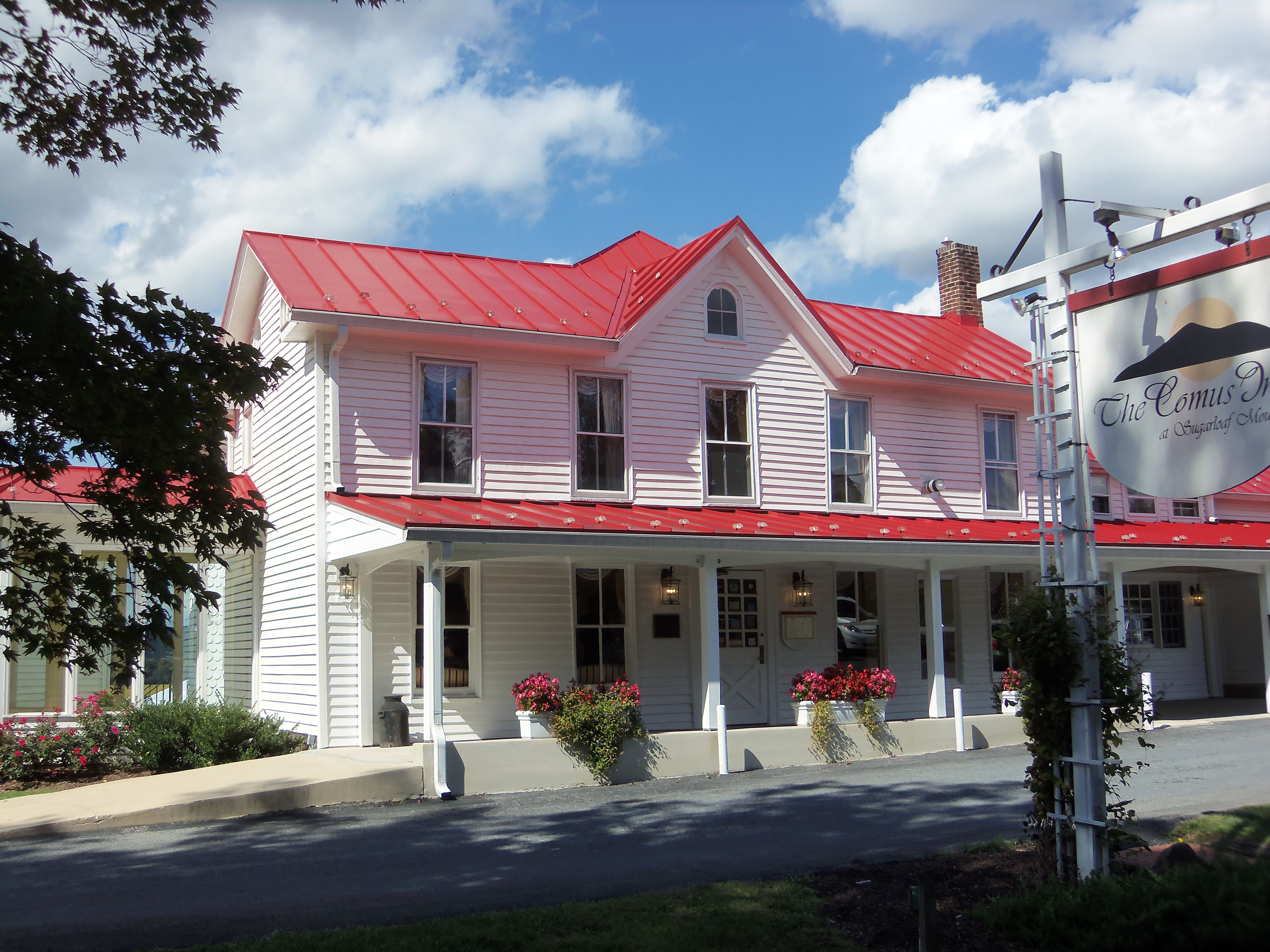 The Comus Inn, also known as the Johnson-Wolfe Farm.